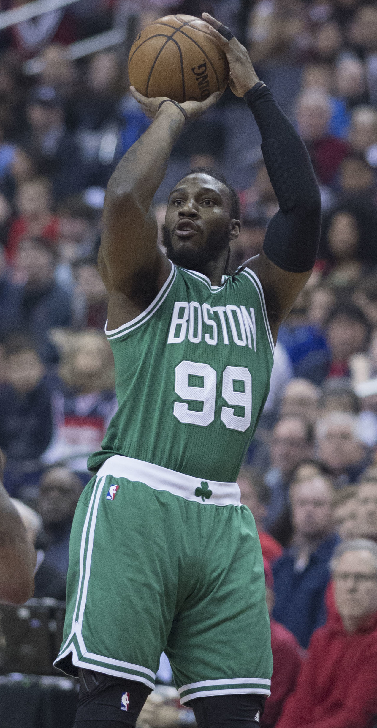 Celtics at Wizards 5/12/17